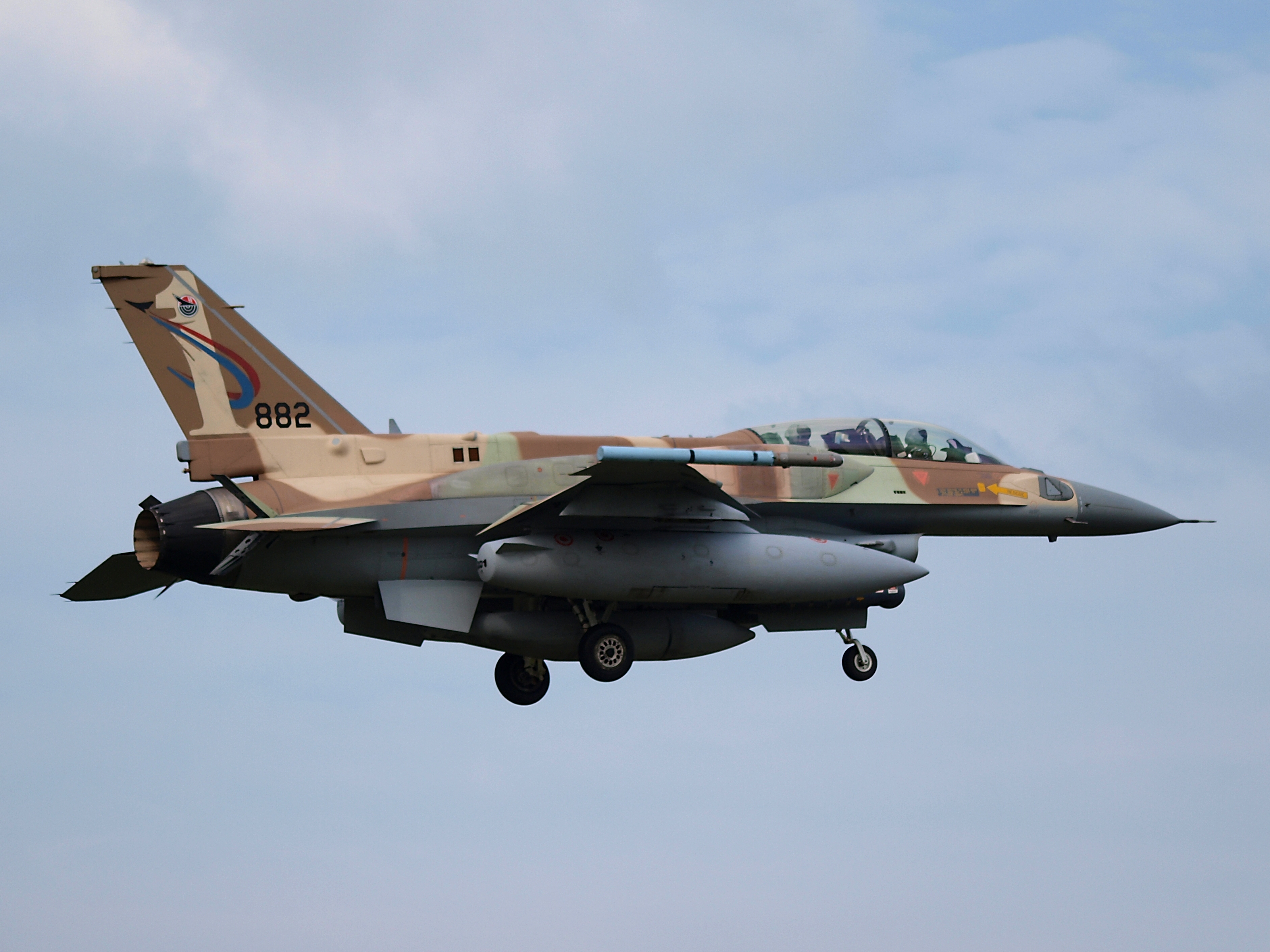 F-16I Soufa '882' of the Israeli Air Force's 'The One' squadron, from Ramon Air Base, on final approach arriving at Kecskemét International Air Show